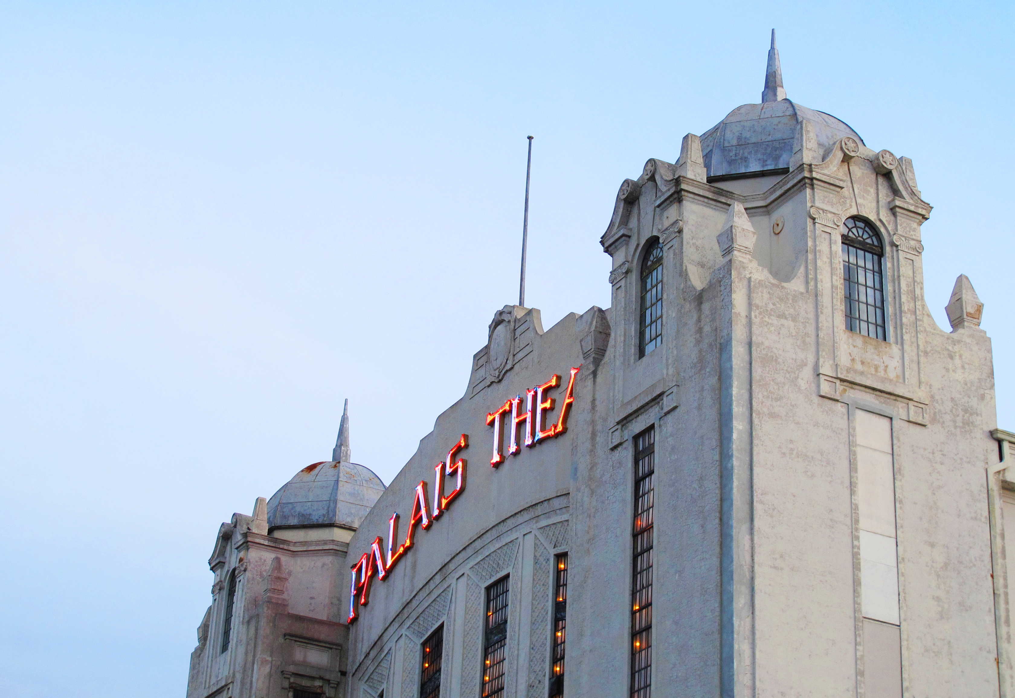 Close-up of the Palais Theatre, St Kilda.